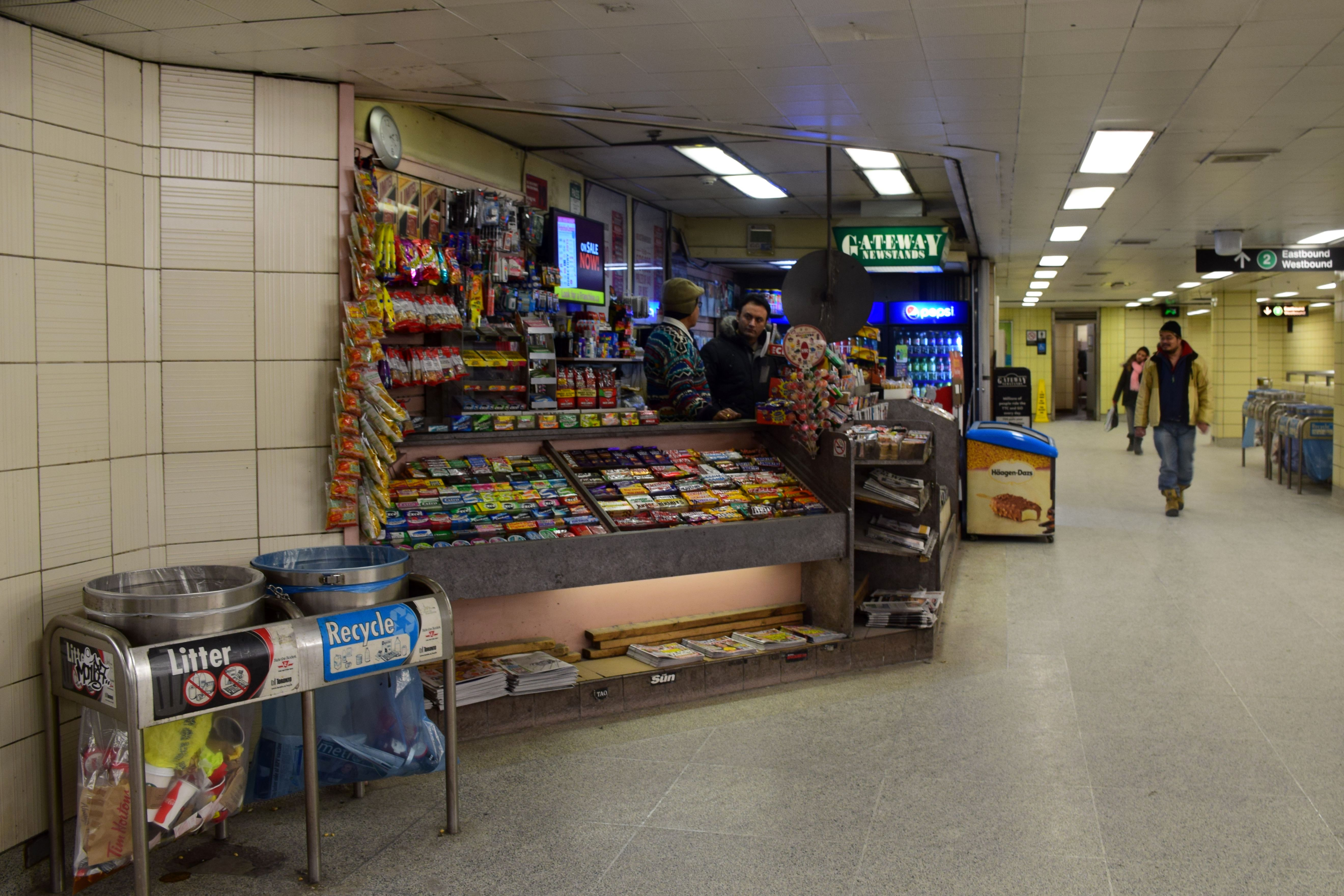 Gateway Newstands at the Bloor-Yonge TTC subway station in Toronto